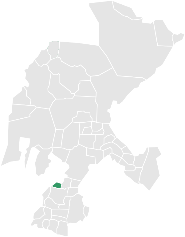 Map of the Municipality of Momax in Zacatecas, México.